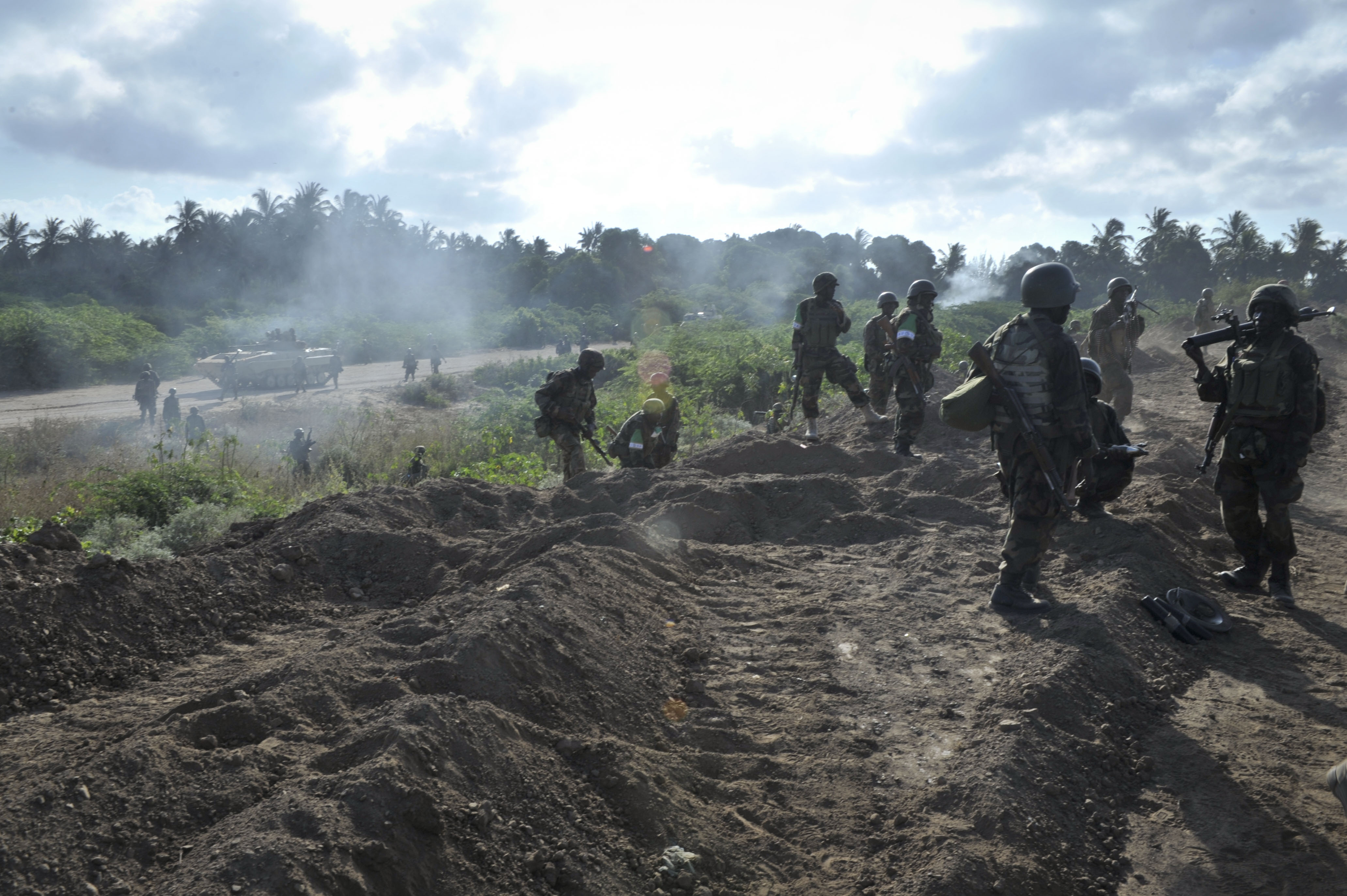 Troops take a quick break during an advance on foot towards the town of Janaale on 14 February. Ugandan troops, as part of the African Union Mission in Somalia (AMISOM), advanced with troops from the Somali National Army (SNA) on three towns in the Lower Shabelle region of Somalia in an operation codenamed "Boot on the Ground" on 14 February. All three towns, Janaale, Aw Dheegle, and Barrire, fell to the allied forces with little resistance from the terrorist group Al Shabab. AU UN IST PHOTO / TOBIN JONES